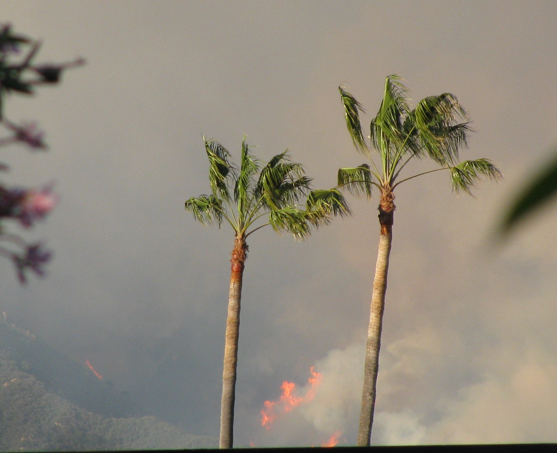 Picture of the Jesusita Fire climbing the side of Barger (Brush) Peak; from the west; could have gotten closer but didn't wanna be a looky-loo. Photo by self, GFDL.